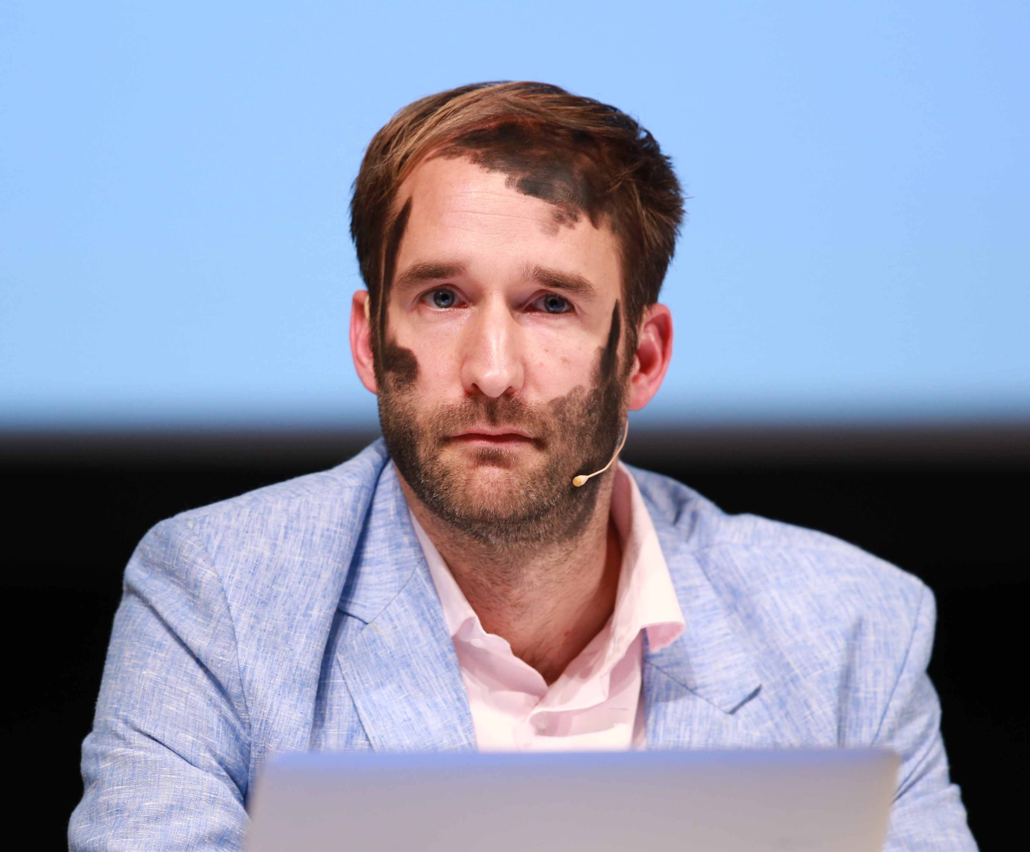 Philipp Ruch, 34th Chaos Communication Congress, Leipzig.